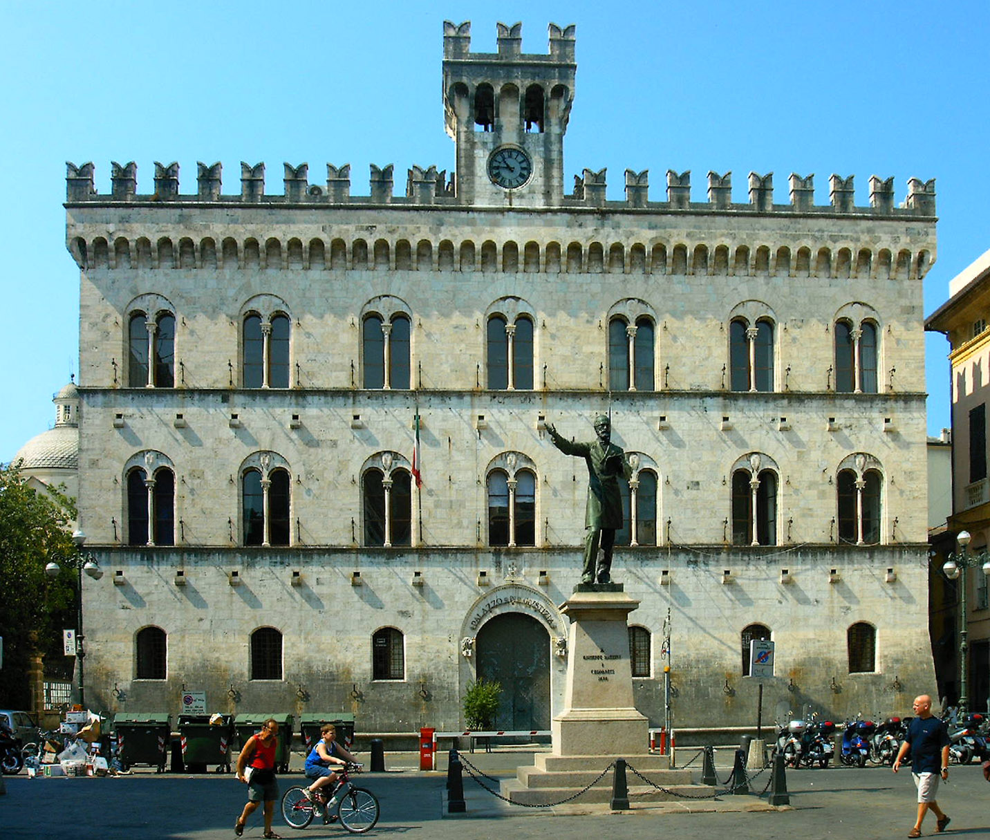 Courthouse and monument to Giuseppe Mazzini in Chiavari, Liguria, Italy..